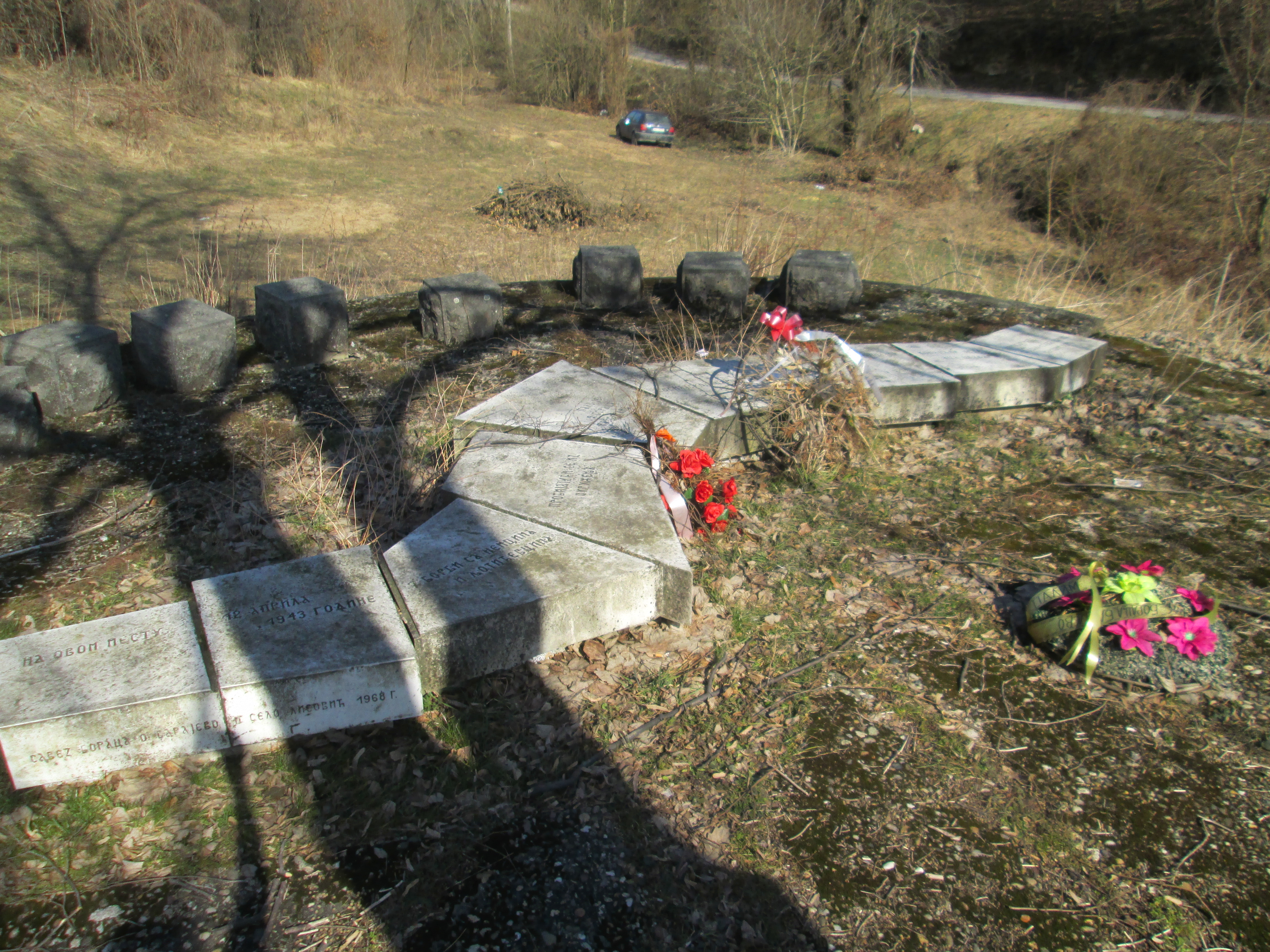 Monument to the fallen Partisans in village including national hero Stjepan Steva Abrlić. Српски (ћирилица): Споменик палим Партизанима у селу Лисовић, укључујући и комесара чете, народног хероја Стјепана Стеву Абрлића.